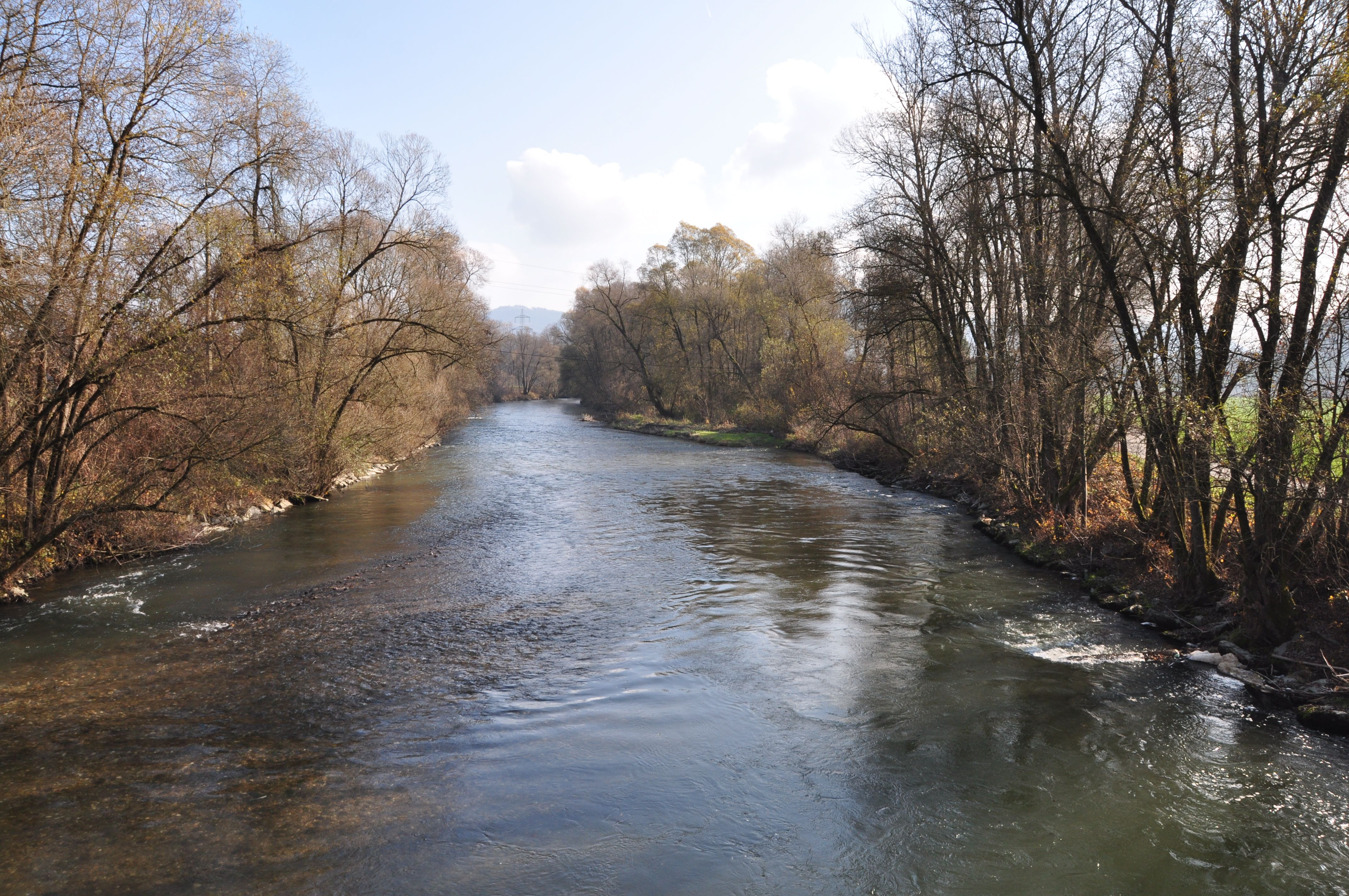 River Gurk at Sand, market town Grafenstein, district Klagenfurt Land, Carinthia, Austria, EU